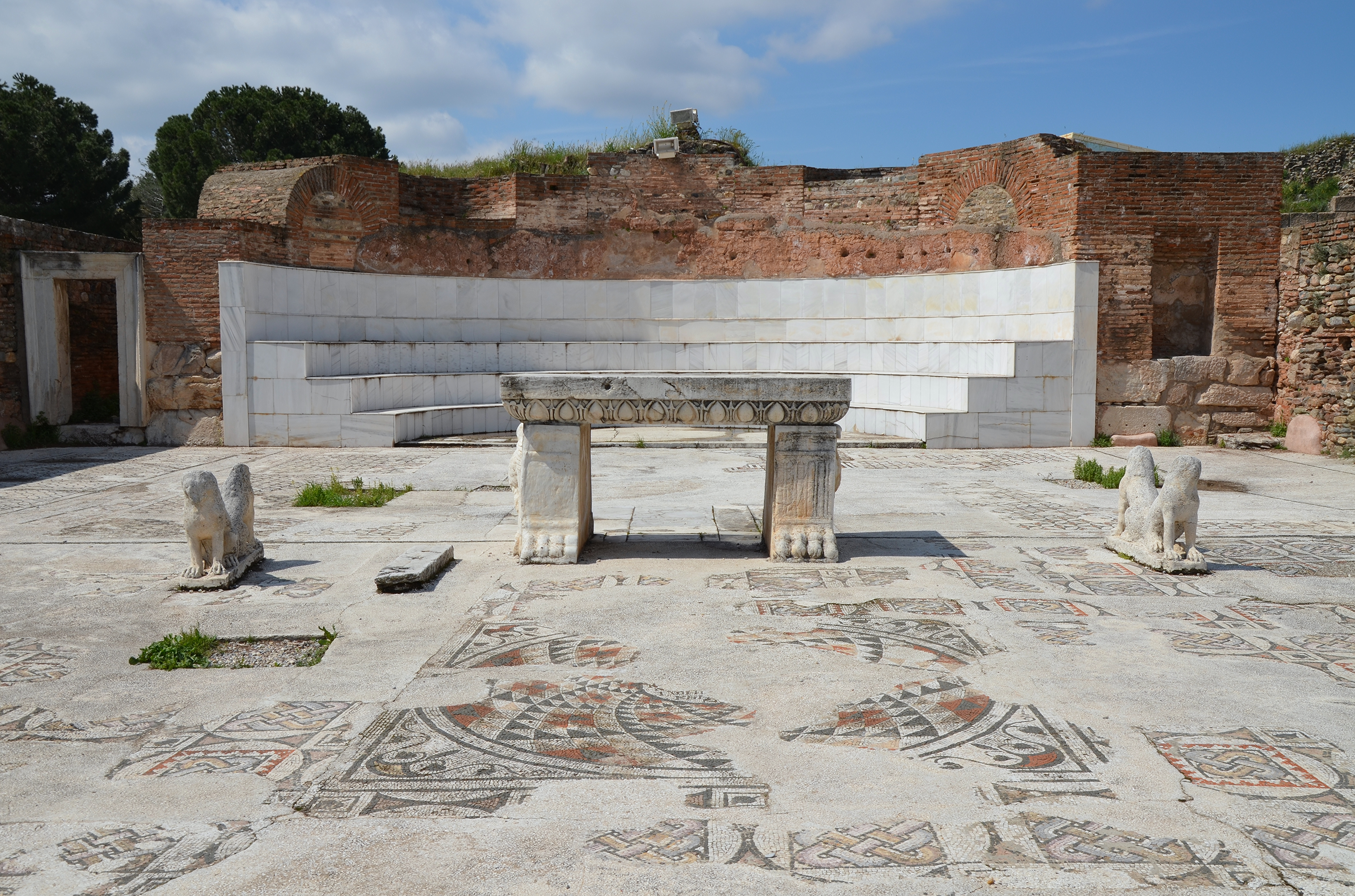 Sardis Synagogue, late 3rd century AD, Sardis, Lydia, Turkey